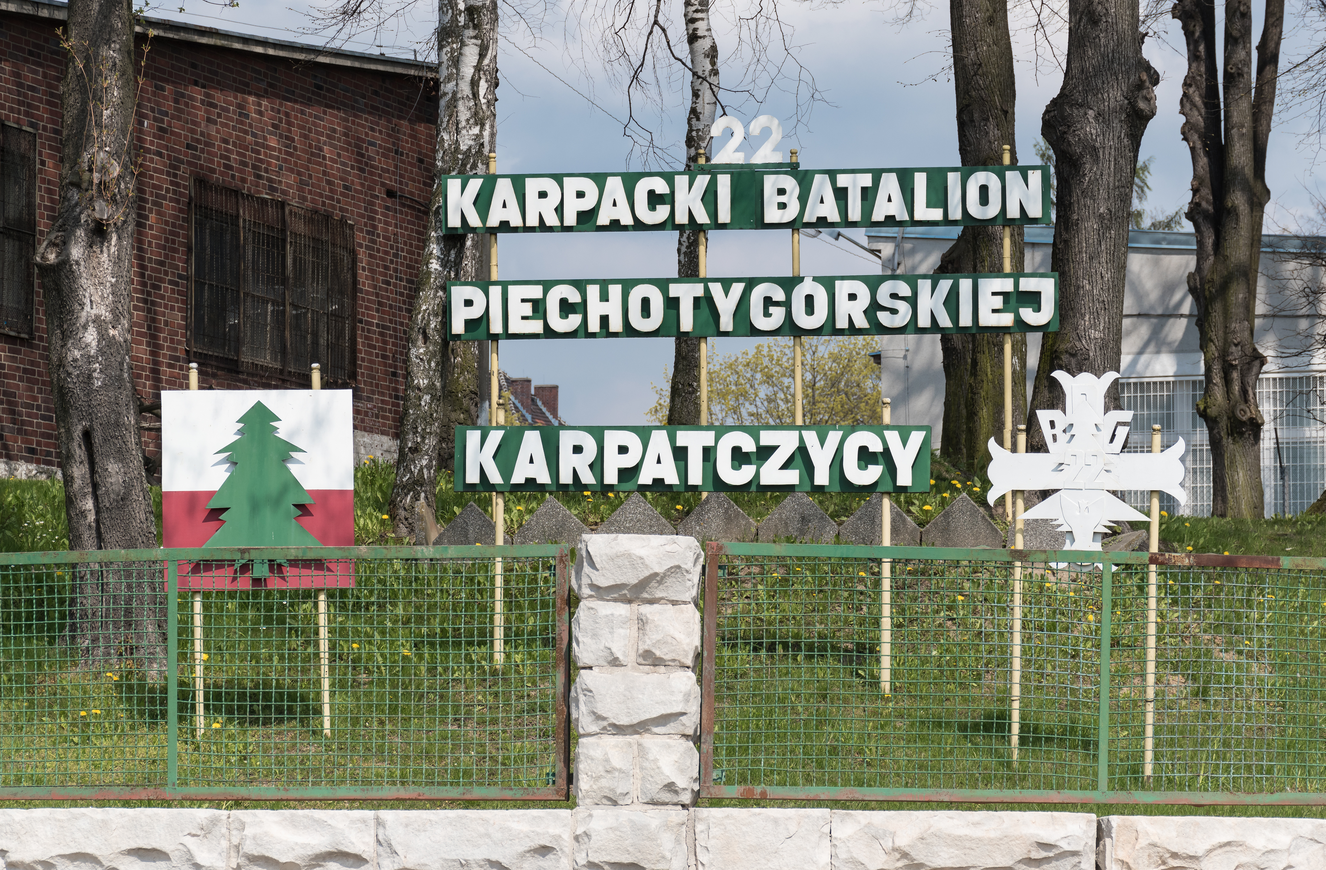 22 Podhale Battalion, information board in Kłodzko